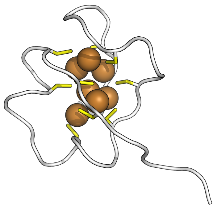 Solution structure of yeast metallothionein (MT) bound to copper ions (PDB:1AQS). Cysteines in yellow, copper ions in brown.